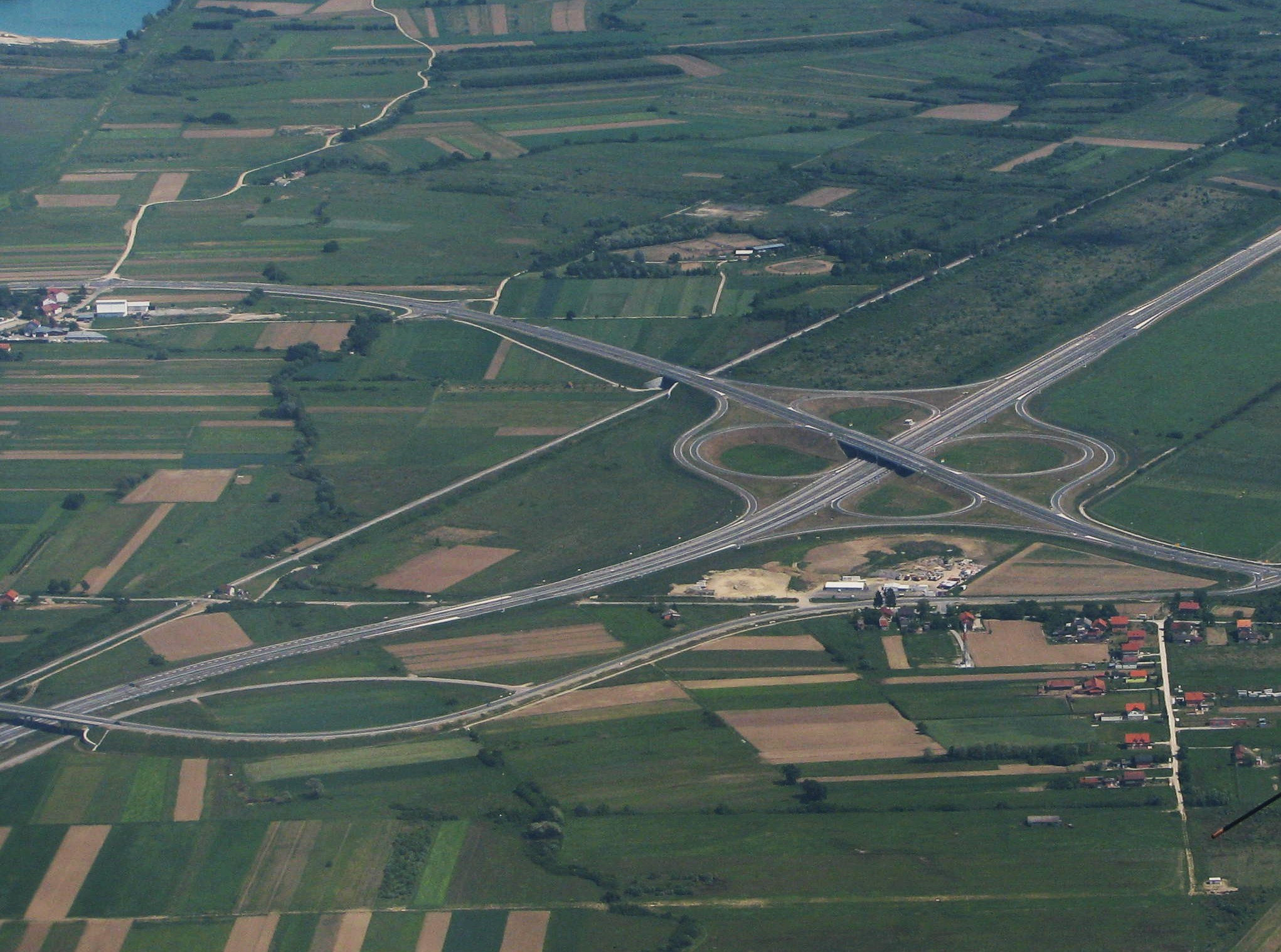 A11 highway in Croatia near Velika Gorica